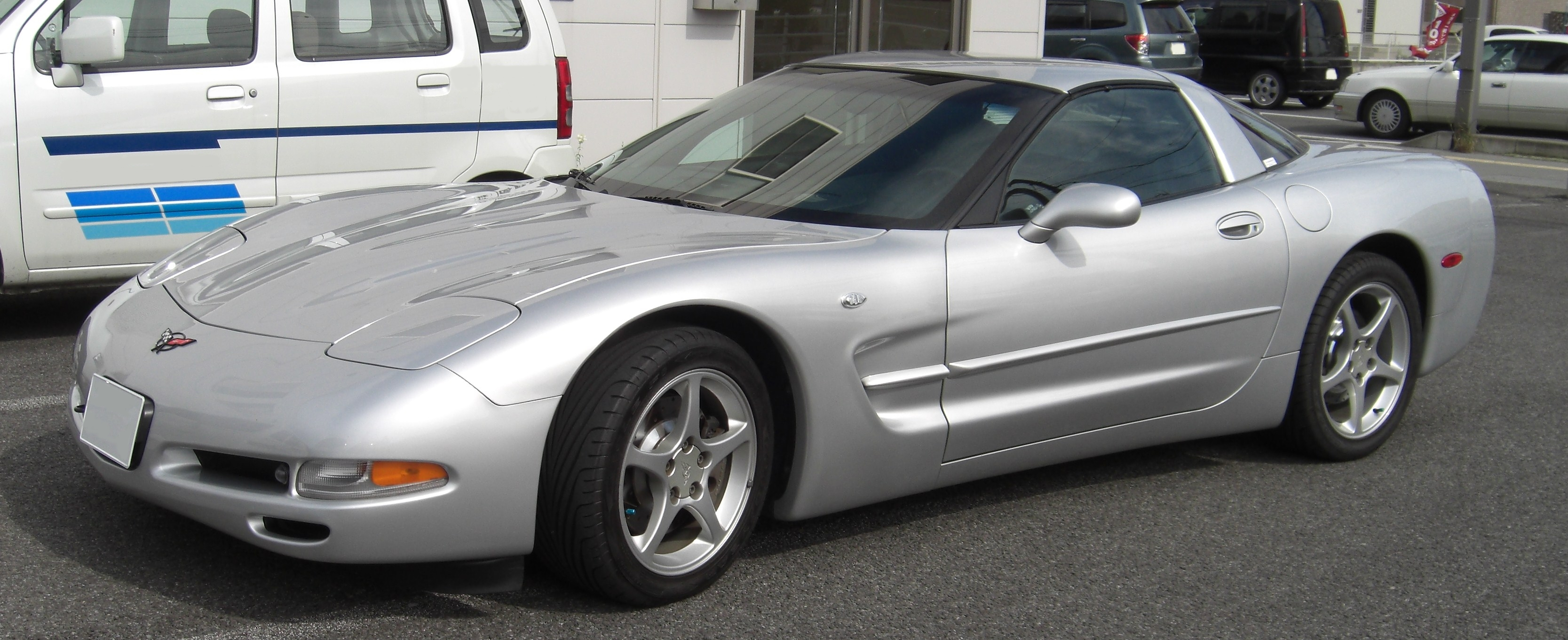 Chevrolet Corvette